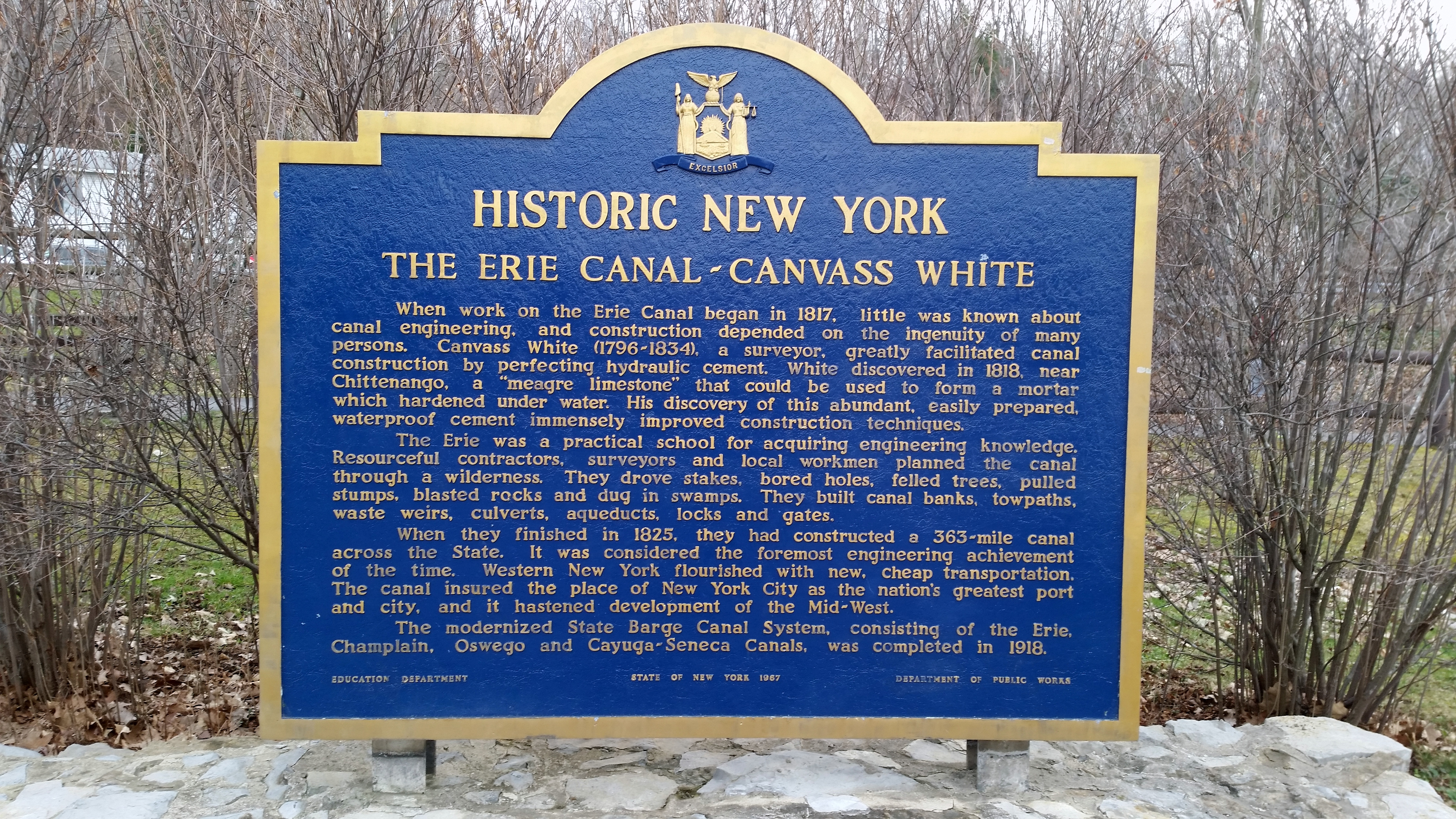 NYS Historic Marker at Old Erie Canal State Historic Park, Manlius Center, Onondaga County, New York